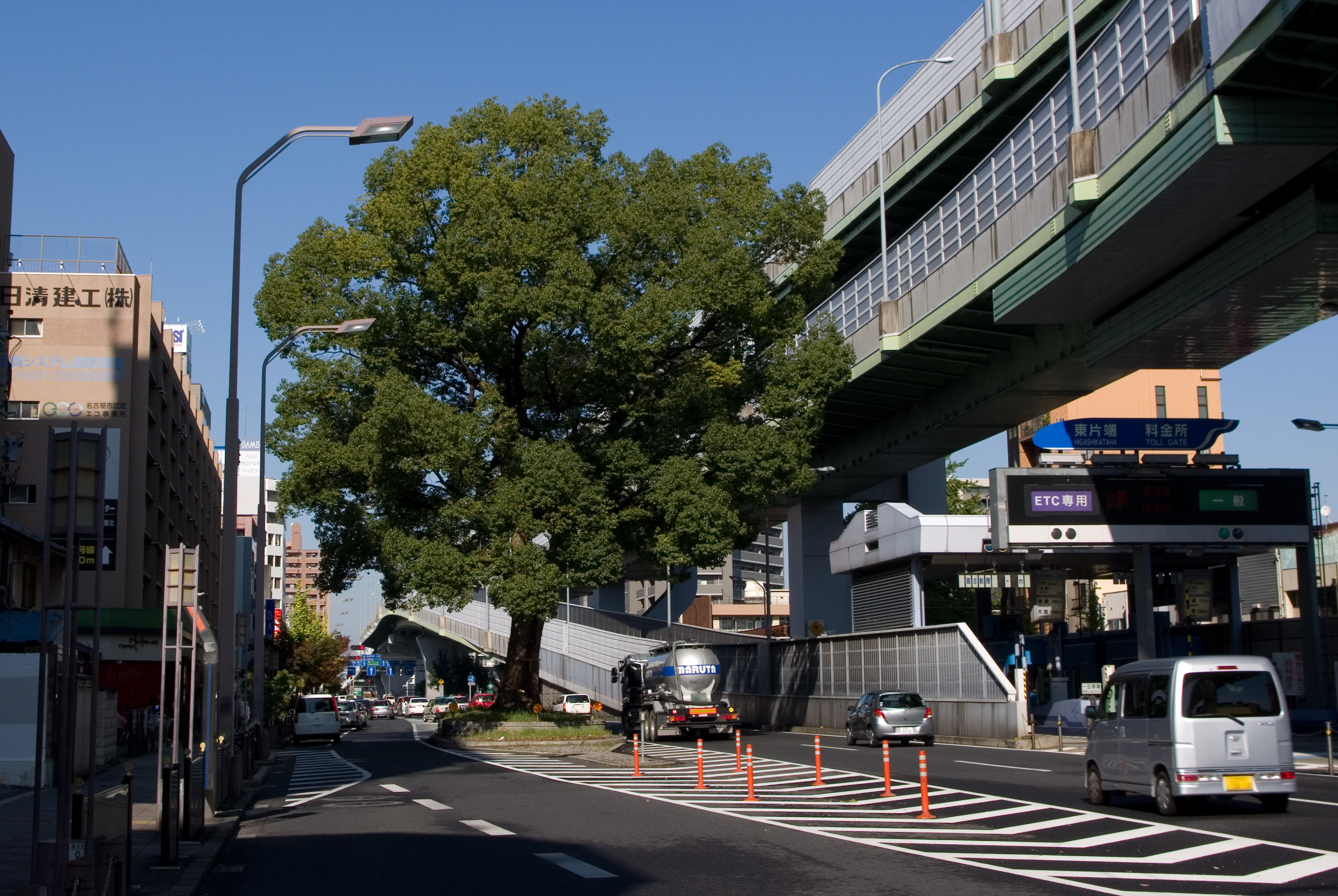 Big camphor tree at Higashikataha in Nagoya City, Aichi Prefecture, Japan